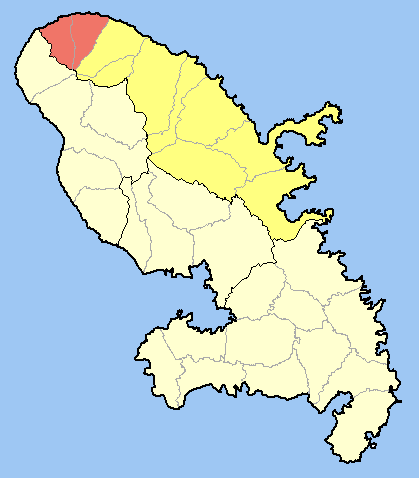 Location of Macoube and Grand'Rivière within Martinique